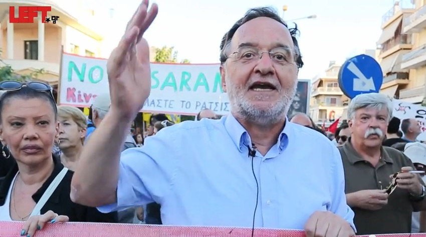 Panagiotis Lafazanis Former Syriza politician and Minister of Productive Reconstruction. Present leader of Greek political party Popular Unity.